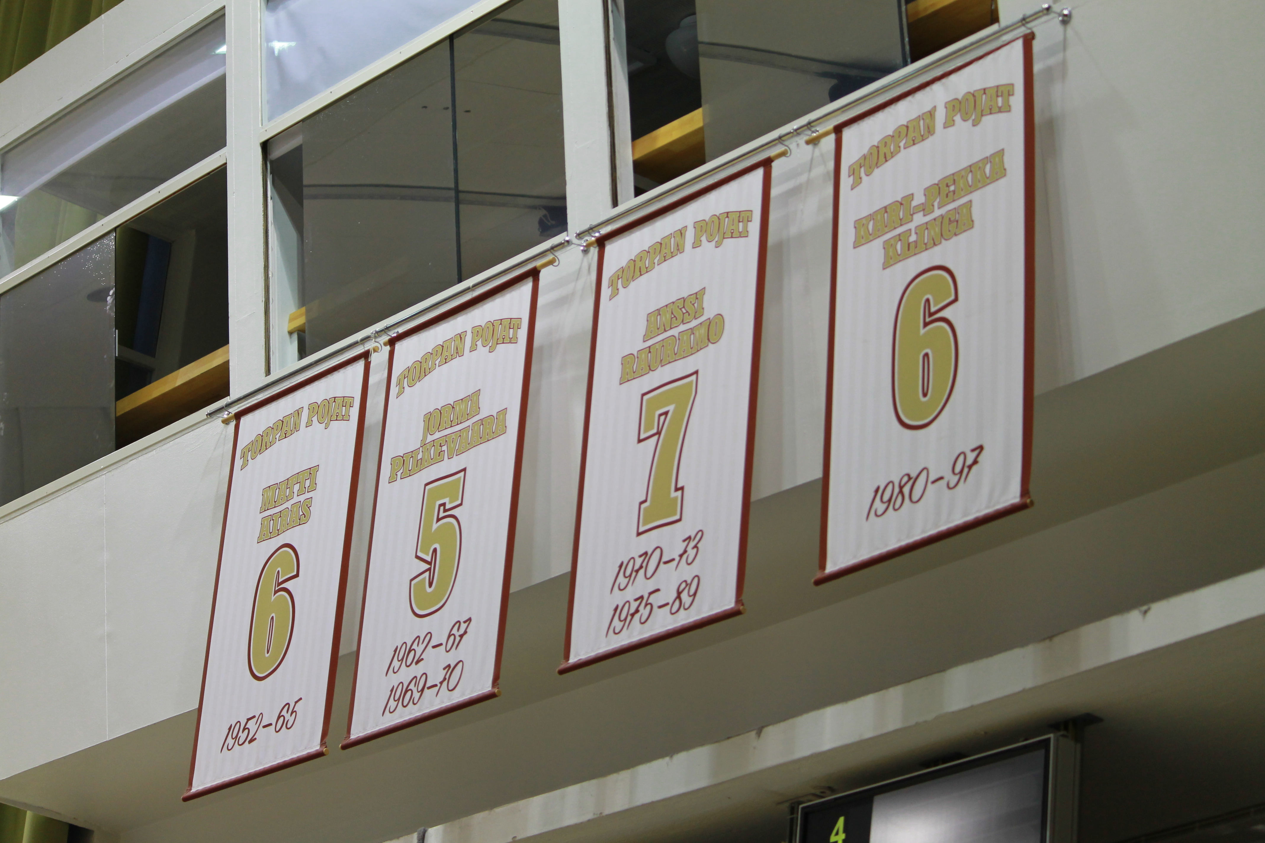 Player numbers of former Torpan Pojat basketballers Matti Airas, Jorma Pilkevaara, Anssi Rauramo and Kari-Pekka Klinga hanging from the wall in the Töölö Sports Hall.